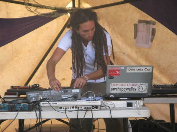 This is a shot of Tom Cosm performing live at Rainbow Serpent Festival 2008